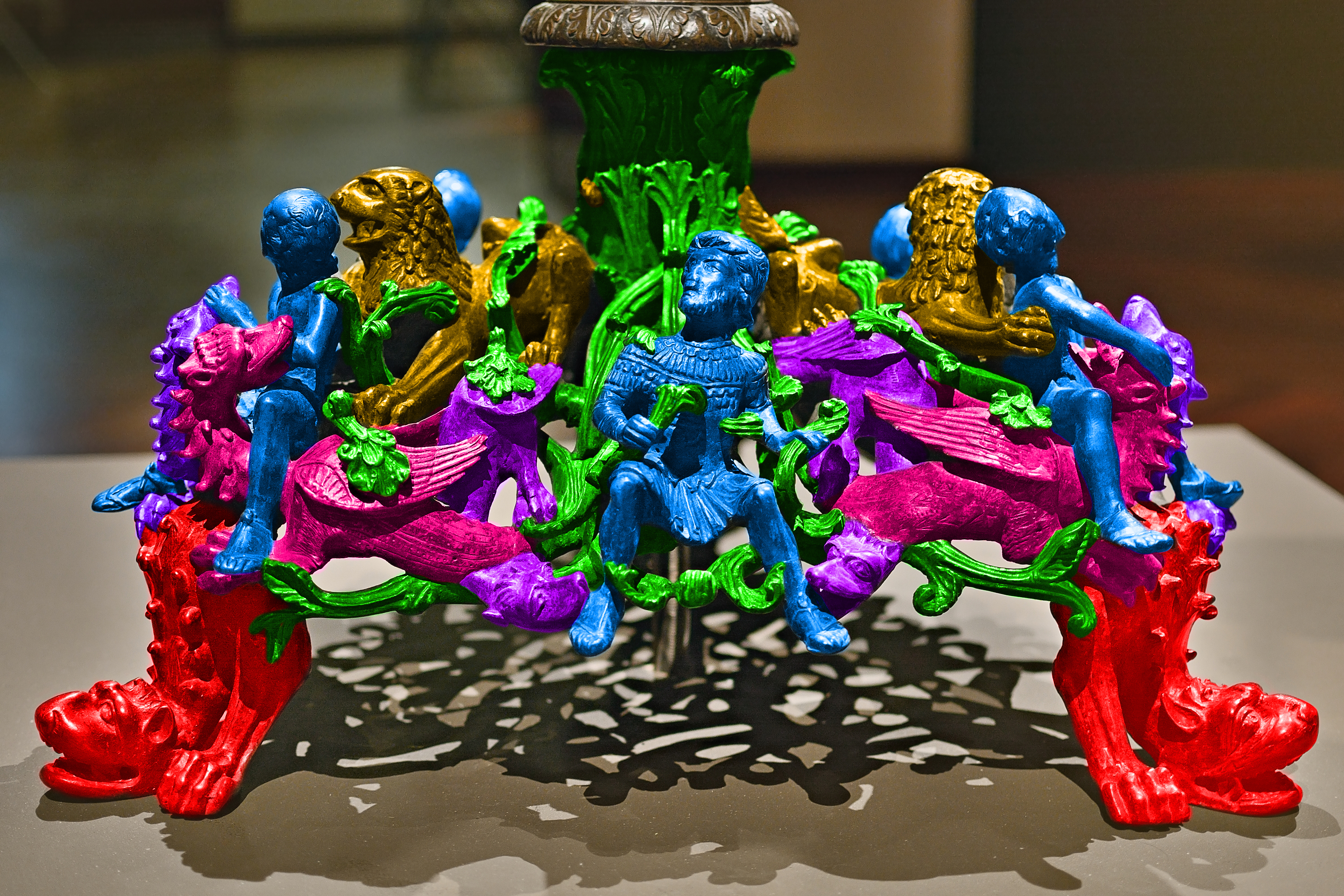 Foot of so called Milanese candlestick at exhibition Benedictines in Prague. Added colors to parts of composition.